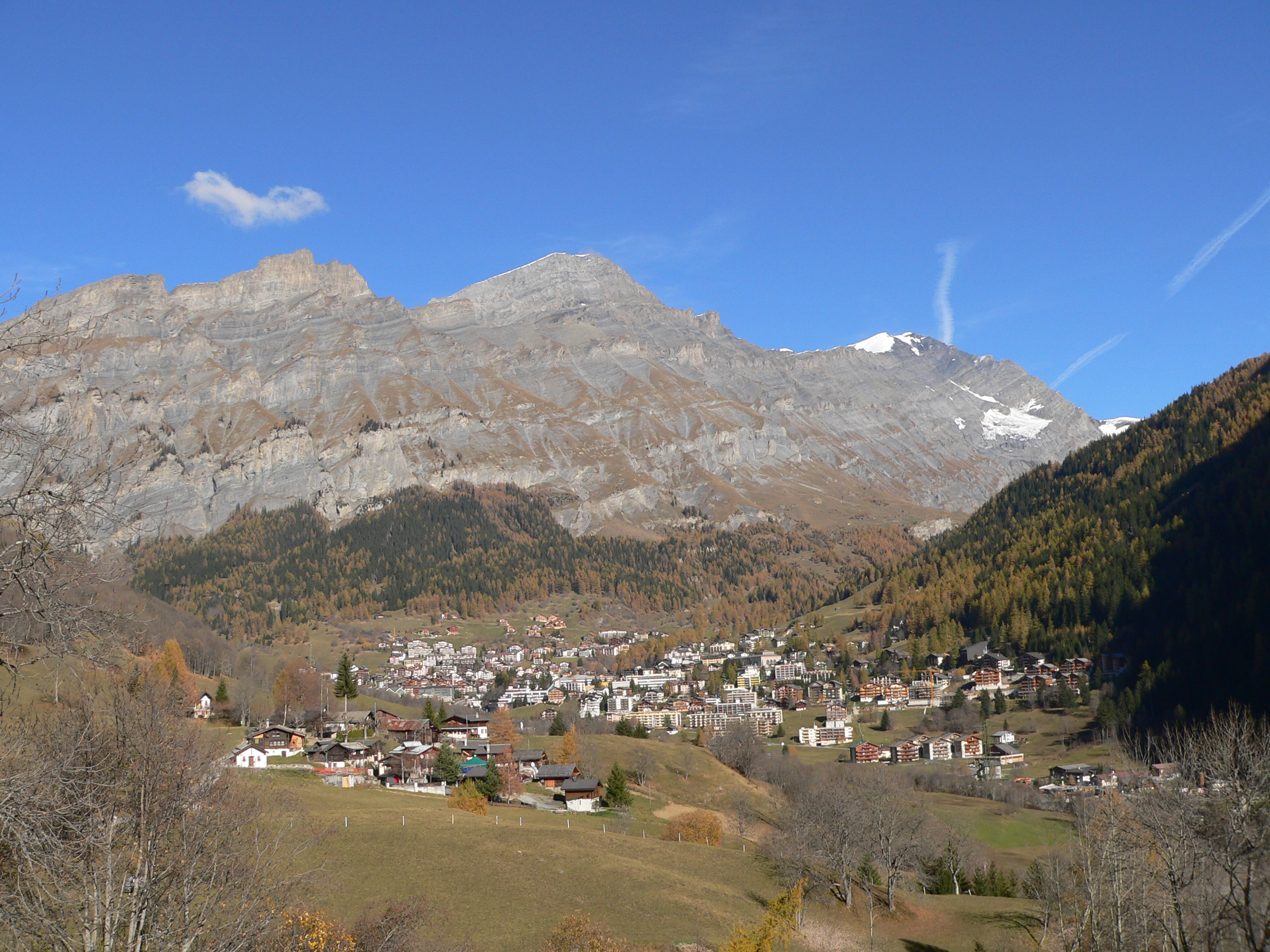 Leukerbad in Swiss, Canton Valais (Wallis in German) Nov2005 Photo taken by user Benutzer:BS Thurner Hof